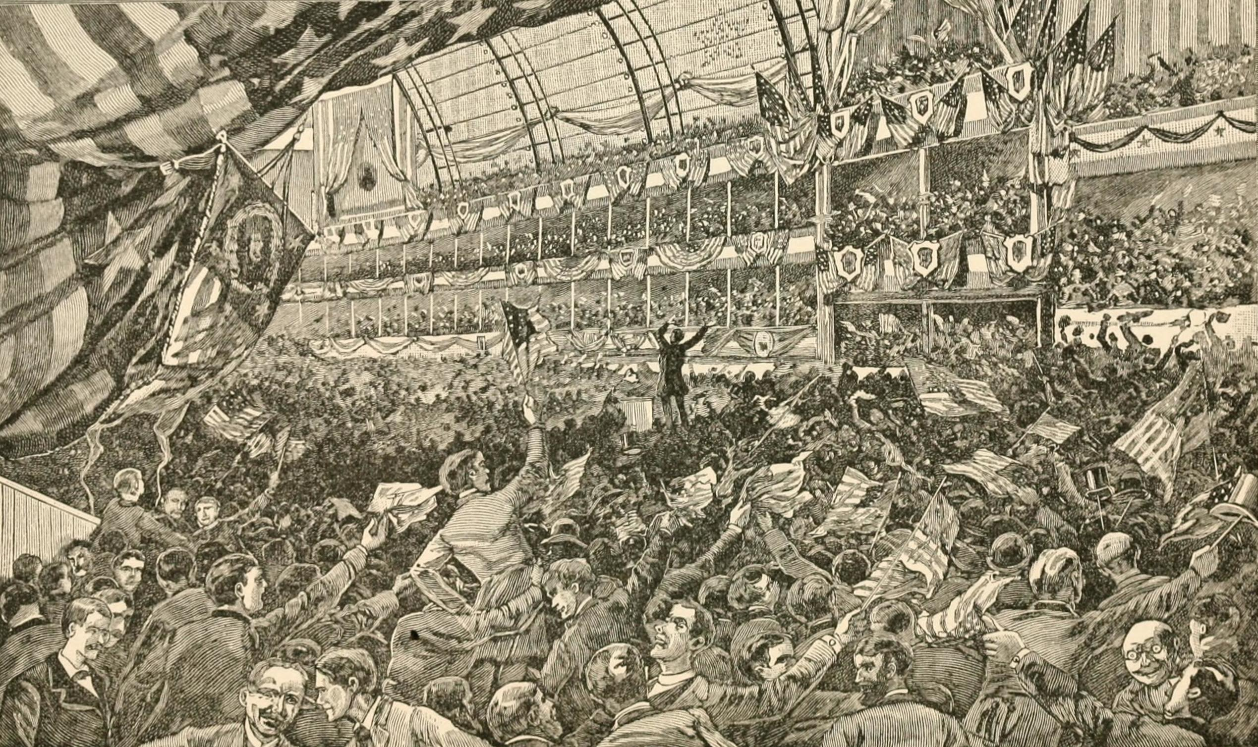 Title: The lives of Benjamin Harrison and Levi P. Morton Year: 1888 (1880s) Authors: Harney, Gilbert L Pierce, Edwin C Subjects: Harrison, Benjamin, 1833-1901 Morton, Levi P. (Levi Parsons), 1824-1920 Republican Party (U.S. : 1854- ) Publisher: Providence, R.I., J. A. & R. A. Reid Text Appearing Before Image: PART III. Text Appearing After Image: Part Third. THE REPUBLICAN PARTY — ITS RECORDAND ITS PRESENT POSITION. Chapter I. ITS GLORIOUS ACHIEVEMENTS. REPEAL OF THE MISSOURI COMPROMISE POLITICAL BREAK-UP FOR-MATION OF THE REPUBLICAN PARTY ELECTION OF 1S56 — FREE-DOM OR SLAVERY IN THE TERRITORIES LINCOLN AND DOUGLAS DEBATE—ELECTION OF ABRAHAM LINCOLN—SECESSION WAR FOR THE UNION — UNPATRIOTIC ATTITUDE OF THE DEMOCRATIC PARTY — THE REPUBLICAN PARTY THE DEFENDER OF NATIONALITY EMANCIPATION ENFRANCHISEMENT OF THE COLORED RACE. In 1852, Franklin Pierce, of New Hampshire, was electedPresident by the Democratic party, receiving the electoralvotes of twenty-seven states. Four States only, Massachusettsand Vermont in the North, and Kentucky and Tennessee in theSouth, cast their votes for General vScott, the Whig candidate. The Democratic platform, upon which Mr. Pierce waschosen, was framed in entire subserviency to the interests andthe wishes of the Southern slave-holders. The DemocraticConvention resolved that all eftbrts